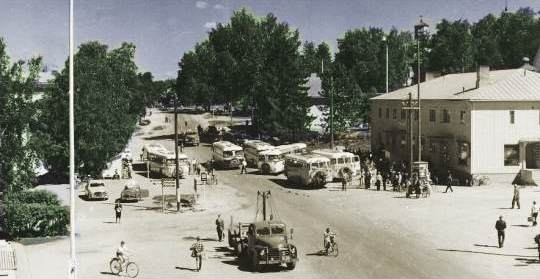 Joutsa bus station, Finland in the late 1950s